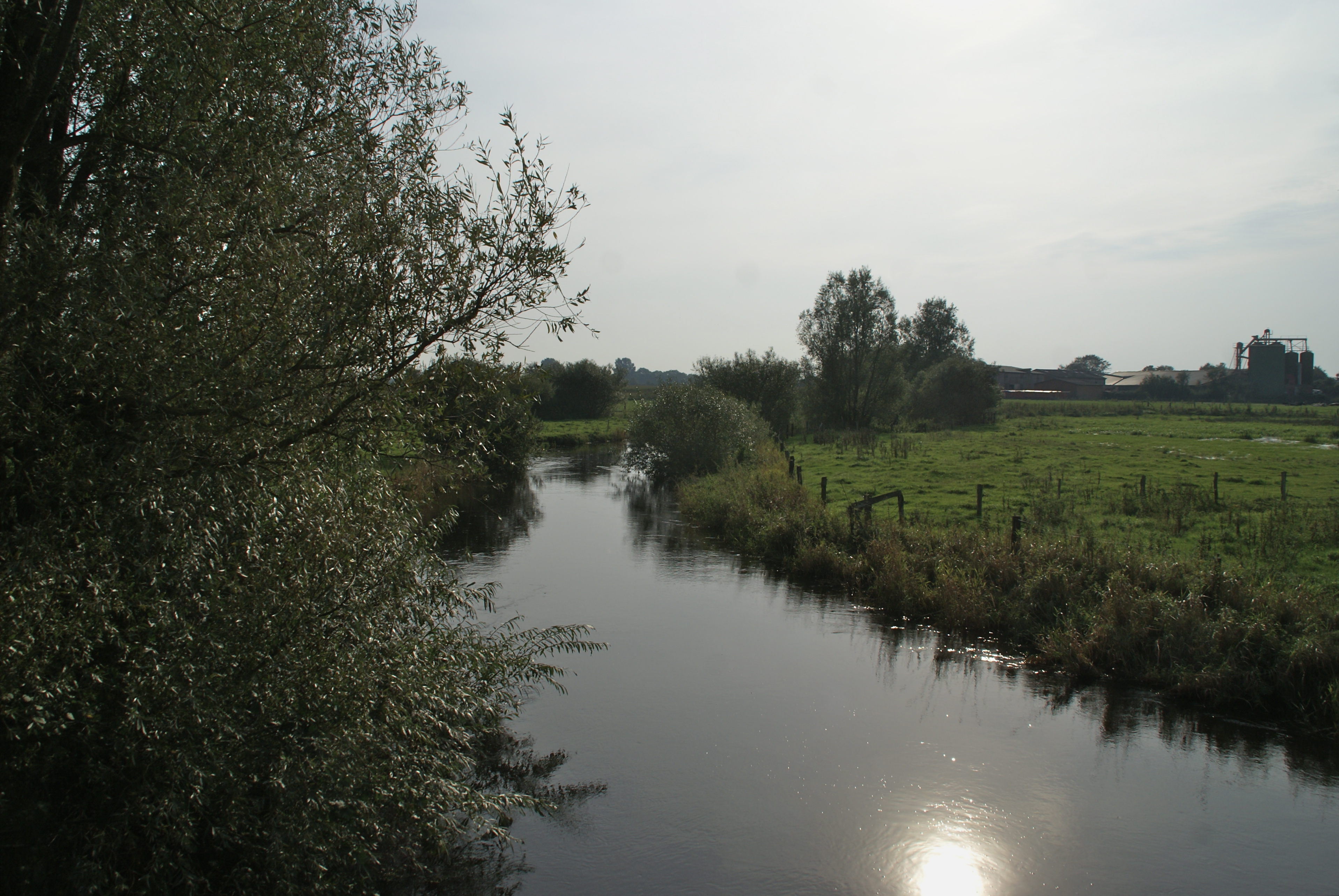 Sollerup (Germany) and Silberstedt: the river Treene at the border between the two municipalities